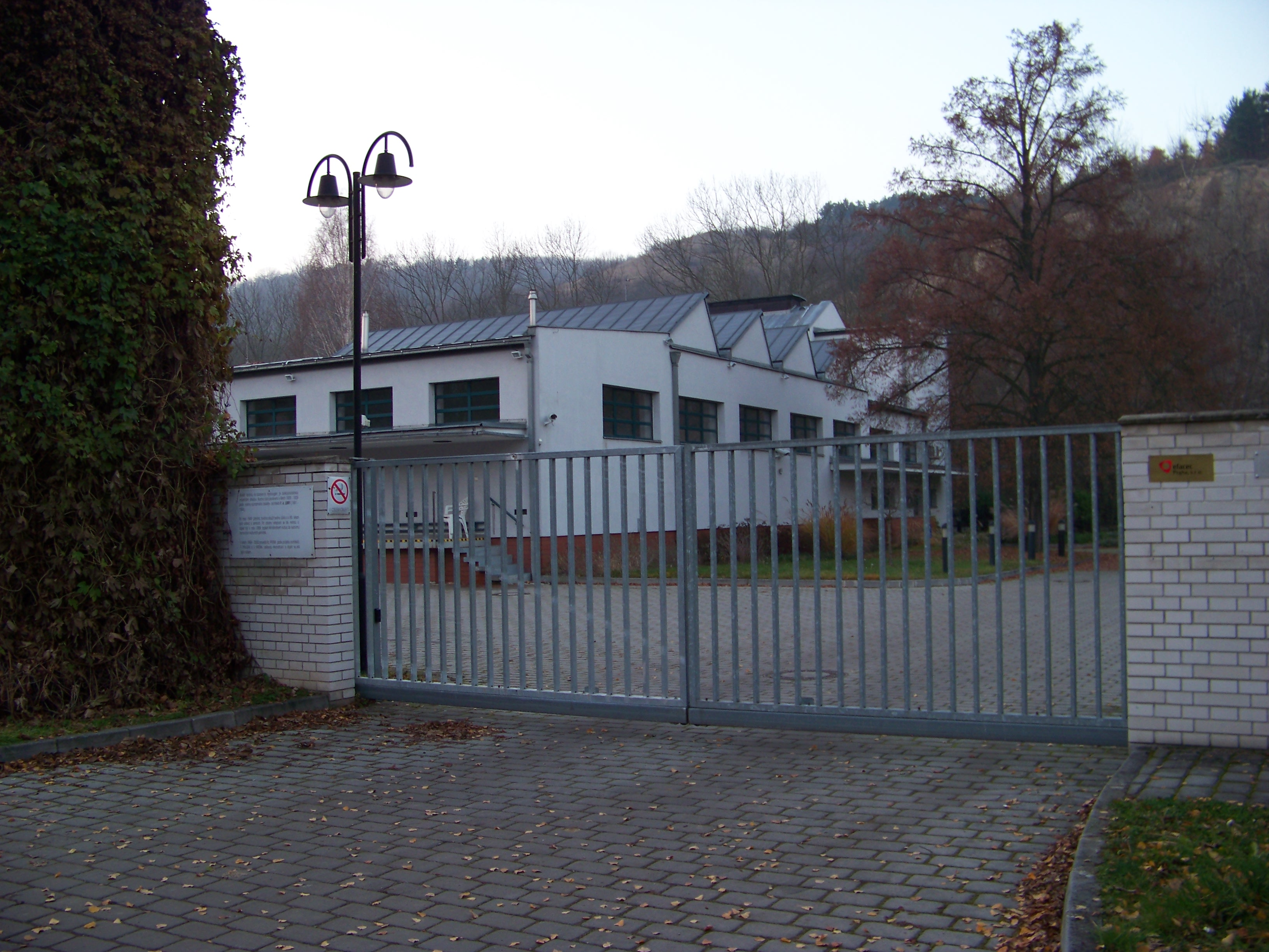 Prague-Hlubočepy, the Czech Republic. Hlubočepská 418/70, Hydroxygen factory.